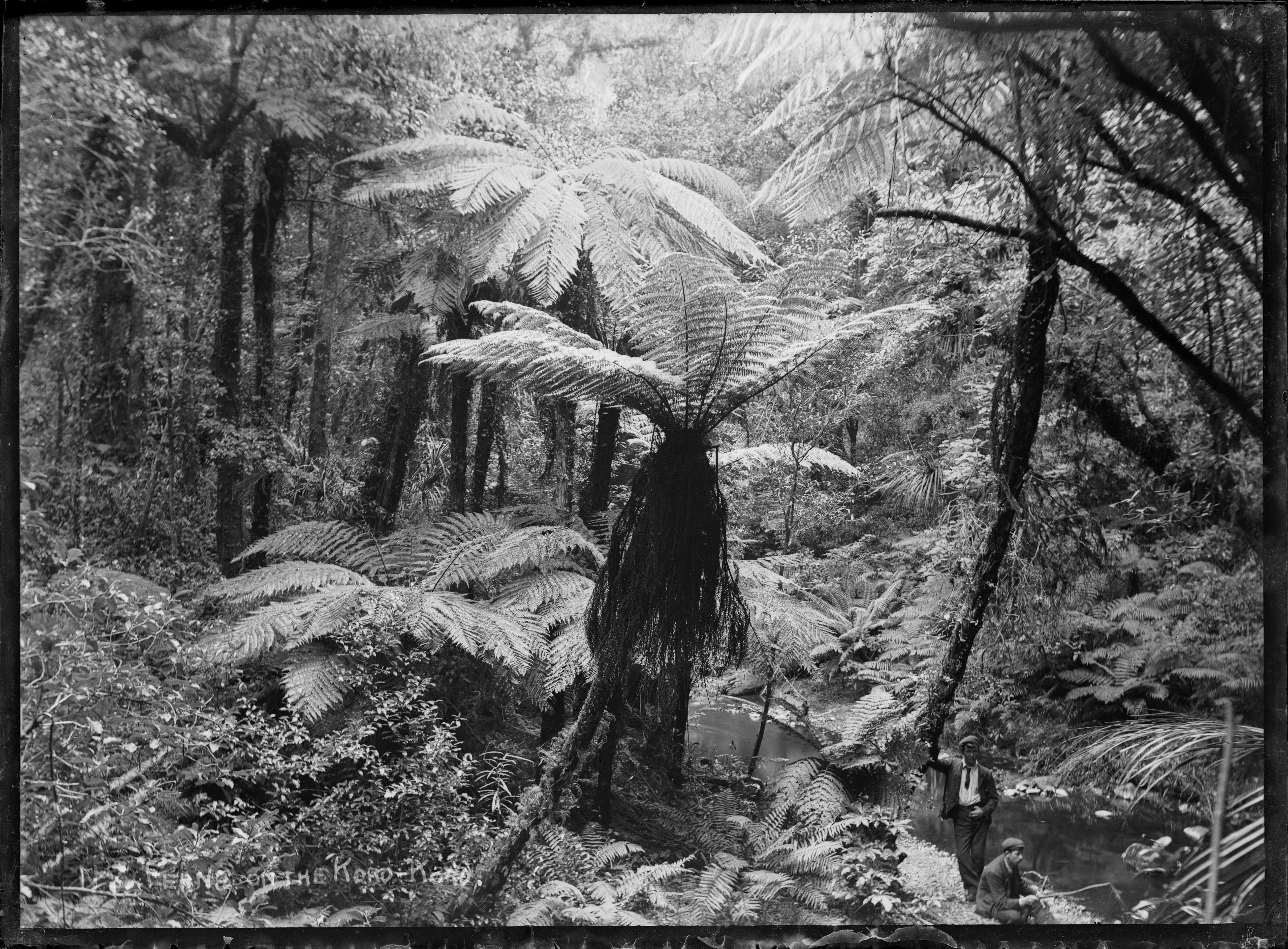 Native bush with tree ferns, a stream, and two men visible in right foreground, at Korokoro, photographed by A P Godber.